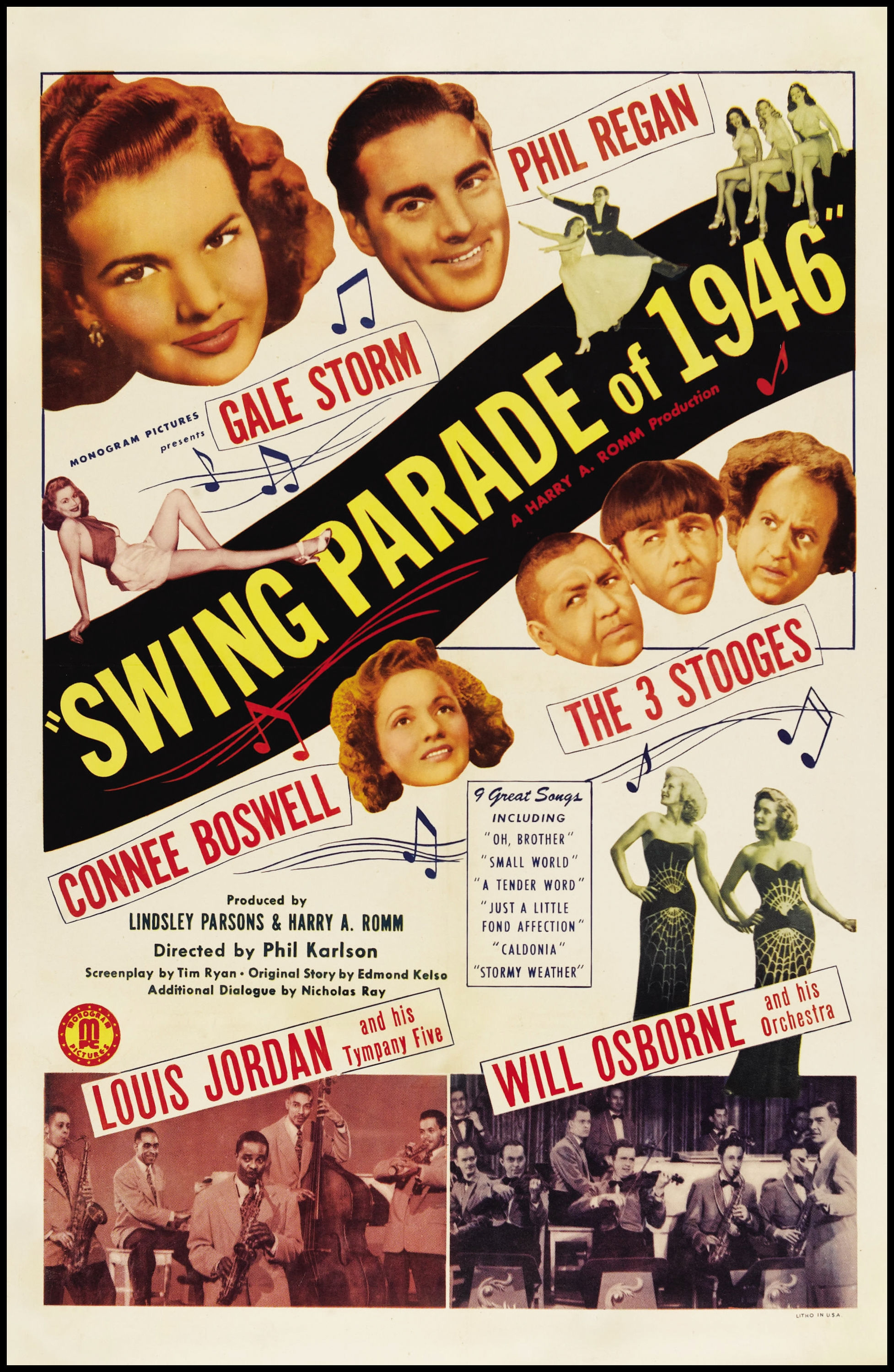 Poster for the 1946 American film Swing Parade of 1946. The item has no copyright markings on it as can be seen in the links above and uncropped copy. At bottom right is Litho in USA.